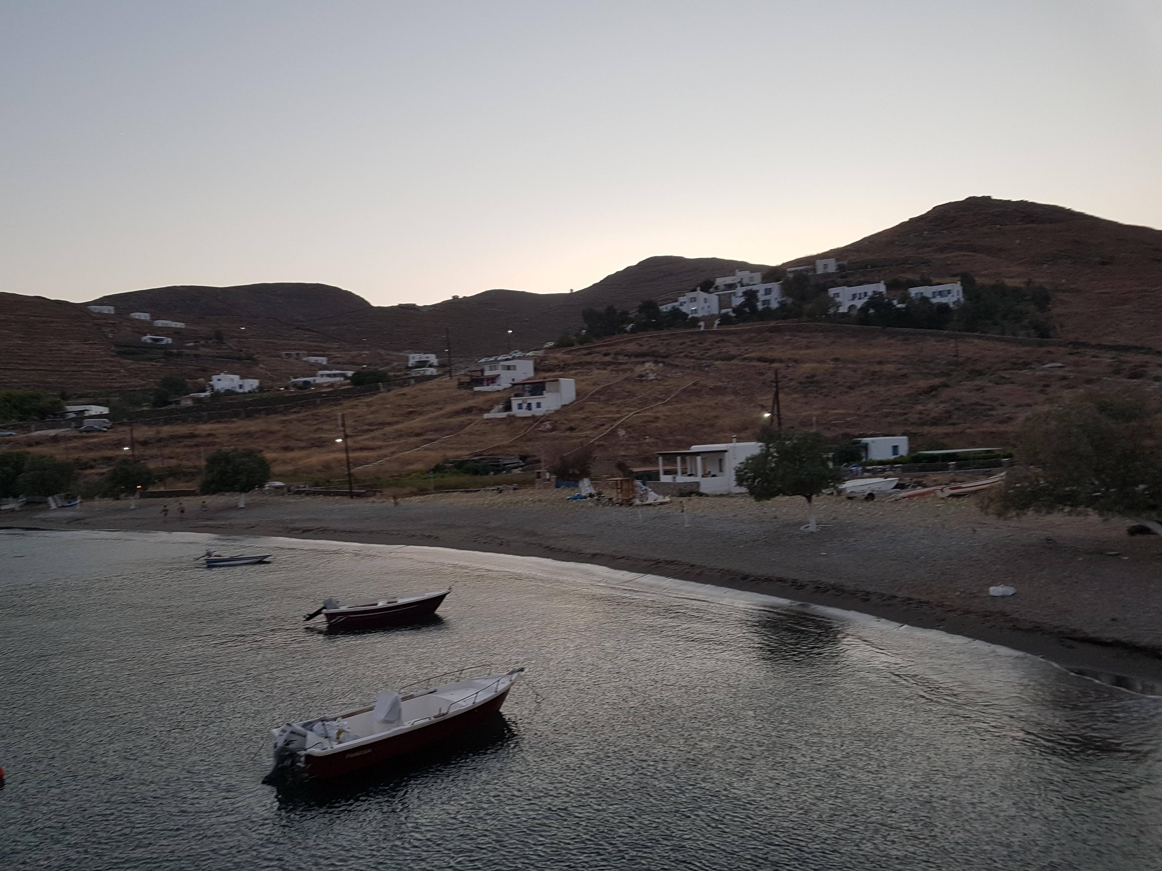 Naoussa Kythnos, August 2018